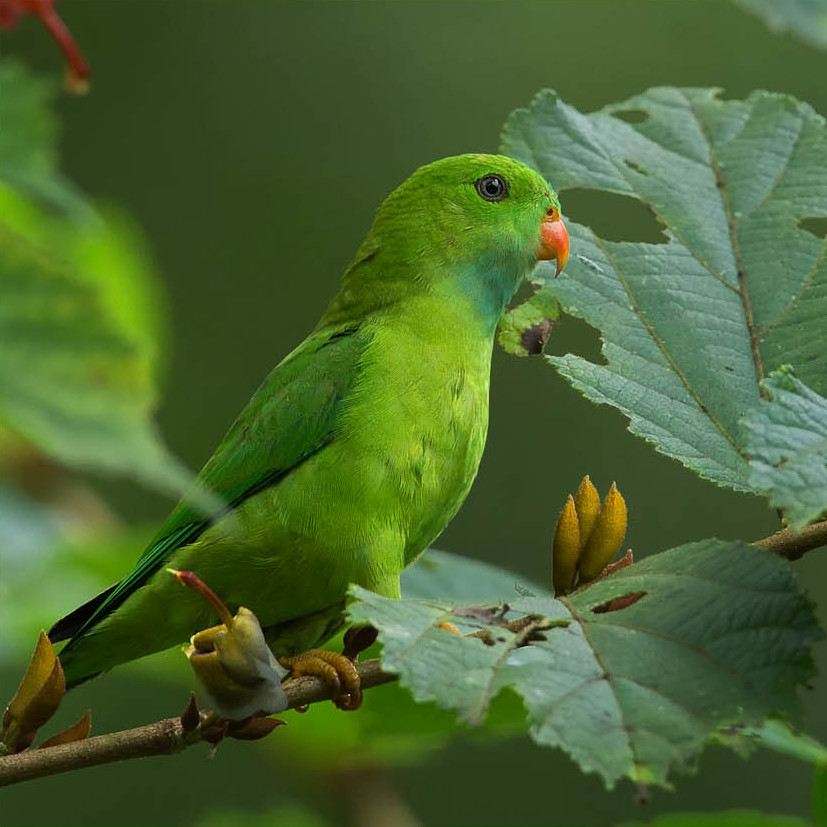 A male Vernal Hanging Parrot in Ganeshgudi, Karnataka, India. Its red rump is not visible in this photograph.